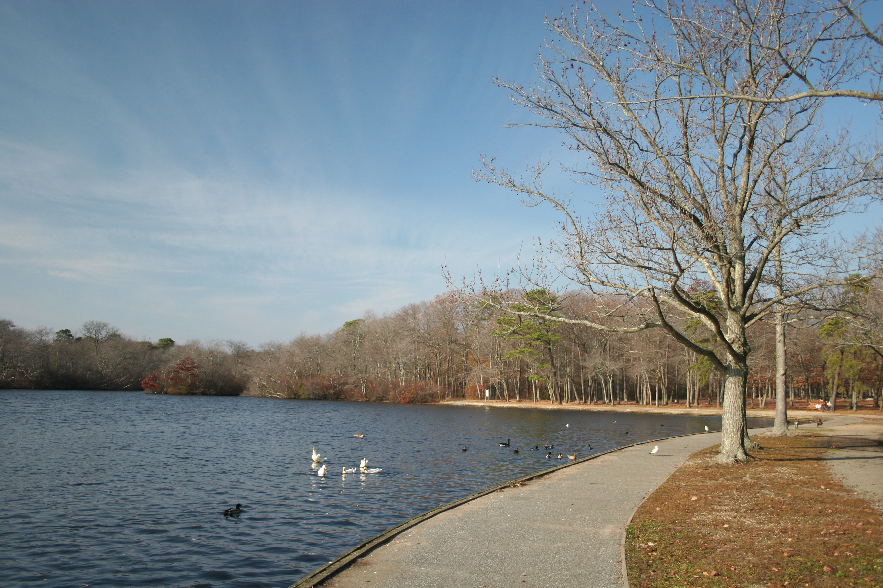 Belmont Lake State Park Long Island, NY Please attribute J. Berry